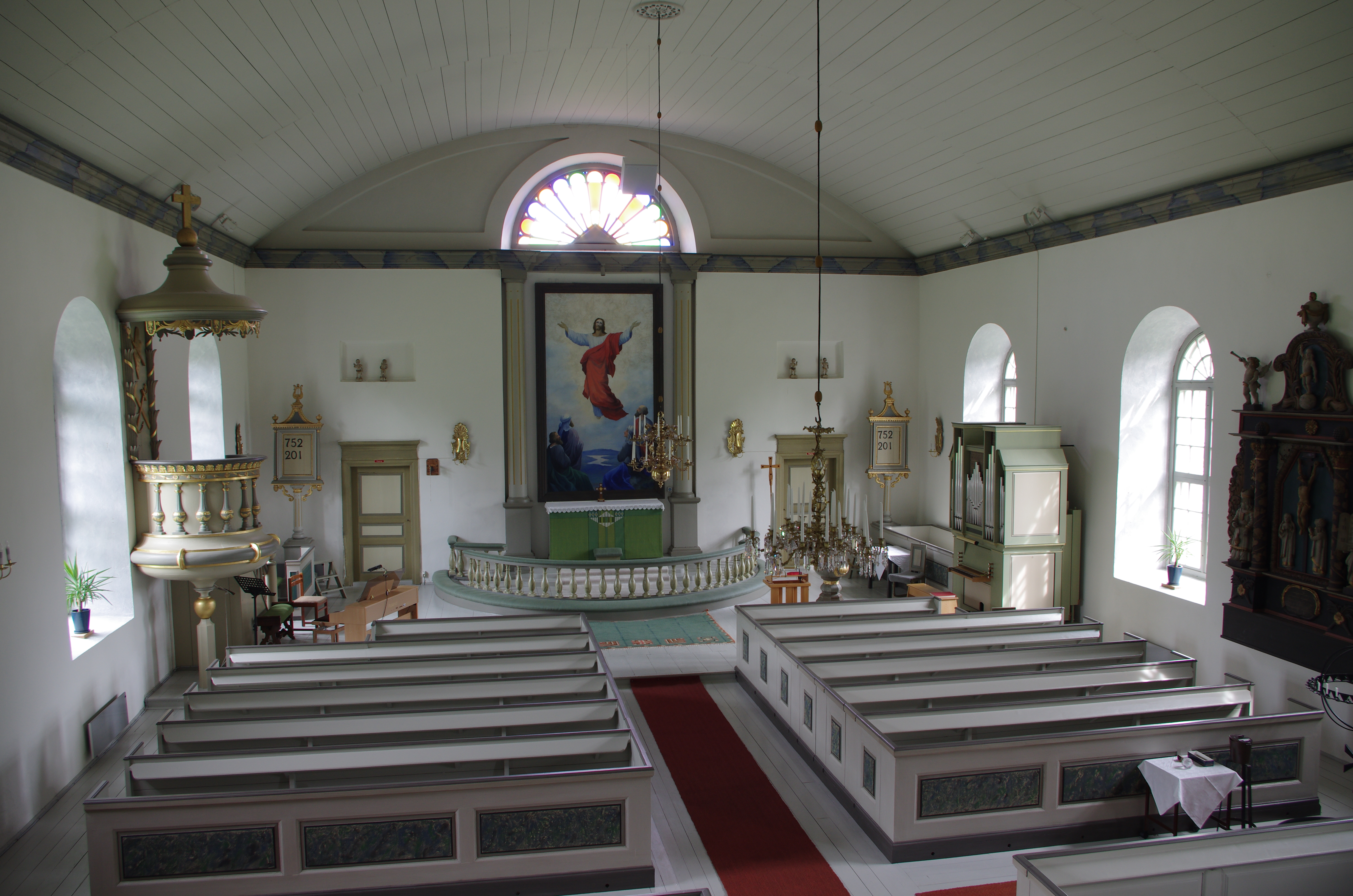 Fröjered church in Västergötland, Sweden.